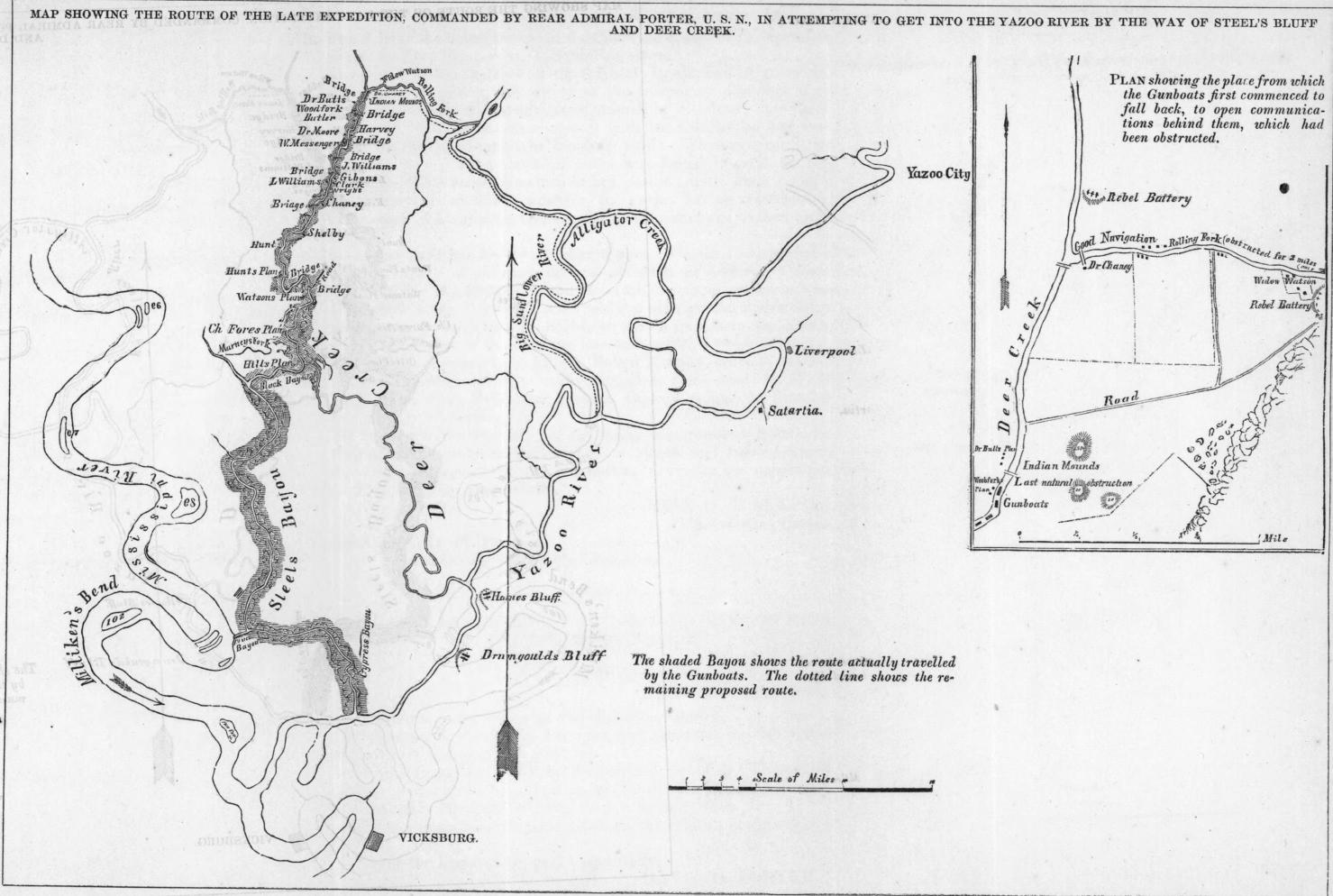 Yazoo River Map of Porter's Yazoo River expedition, by way of Steel's Bluff and Deer Creek, May of 1863